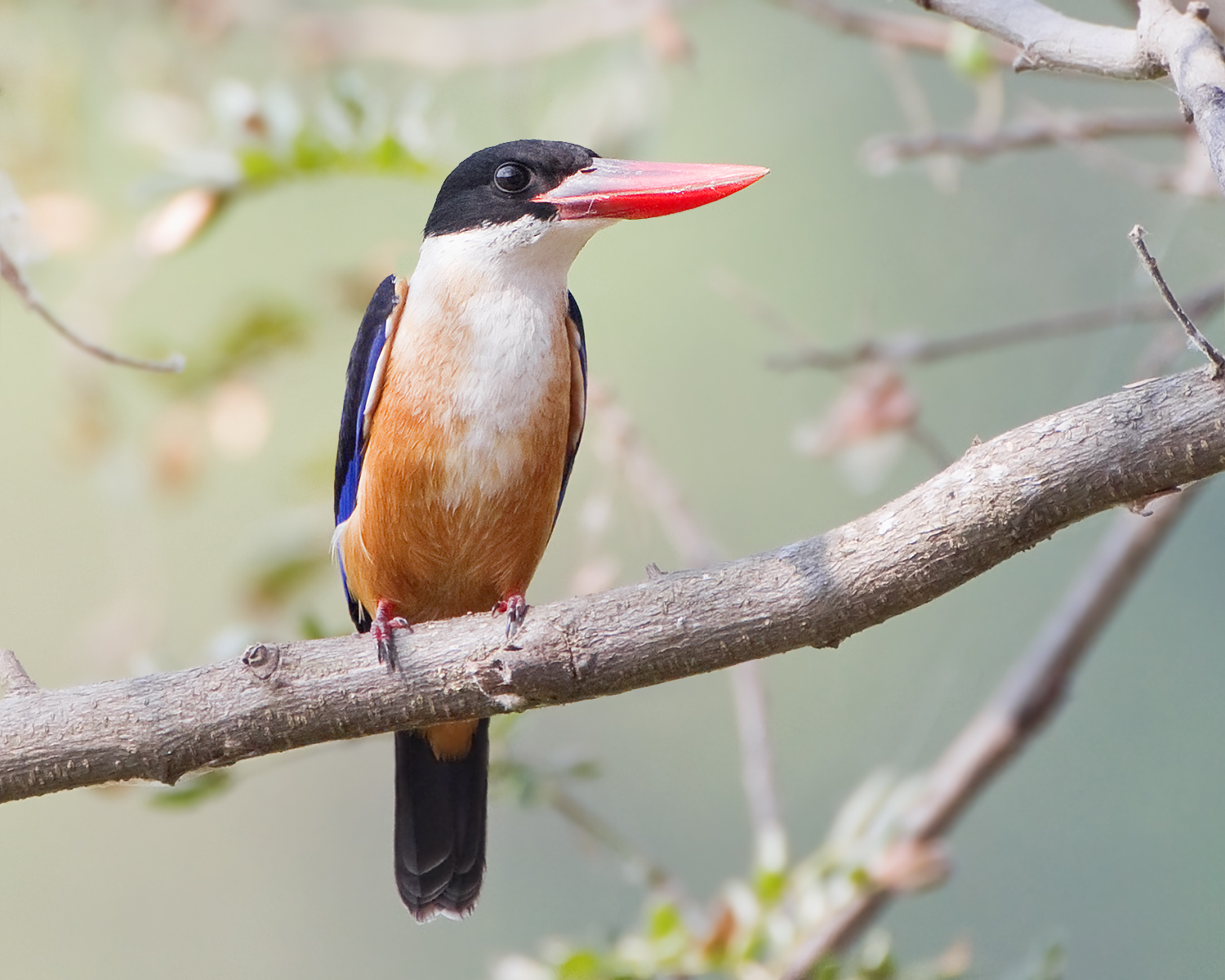 Black-capped Kingfisher (Halcyon pileata), Phra Non, Nakhon Sawan, Thailand